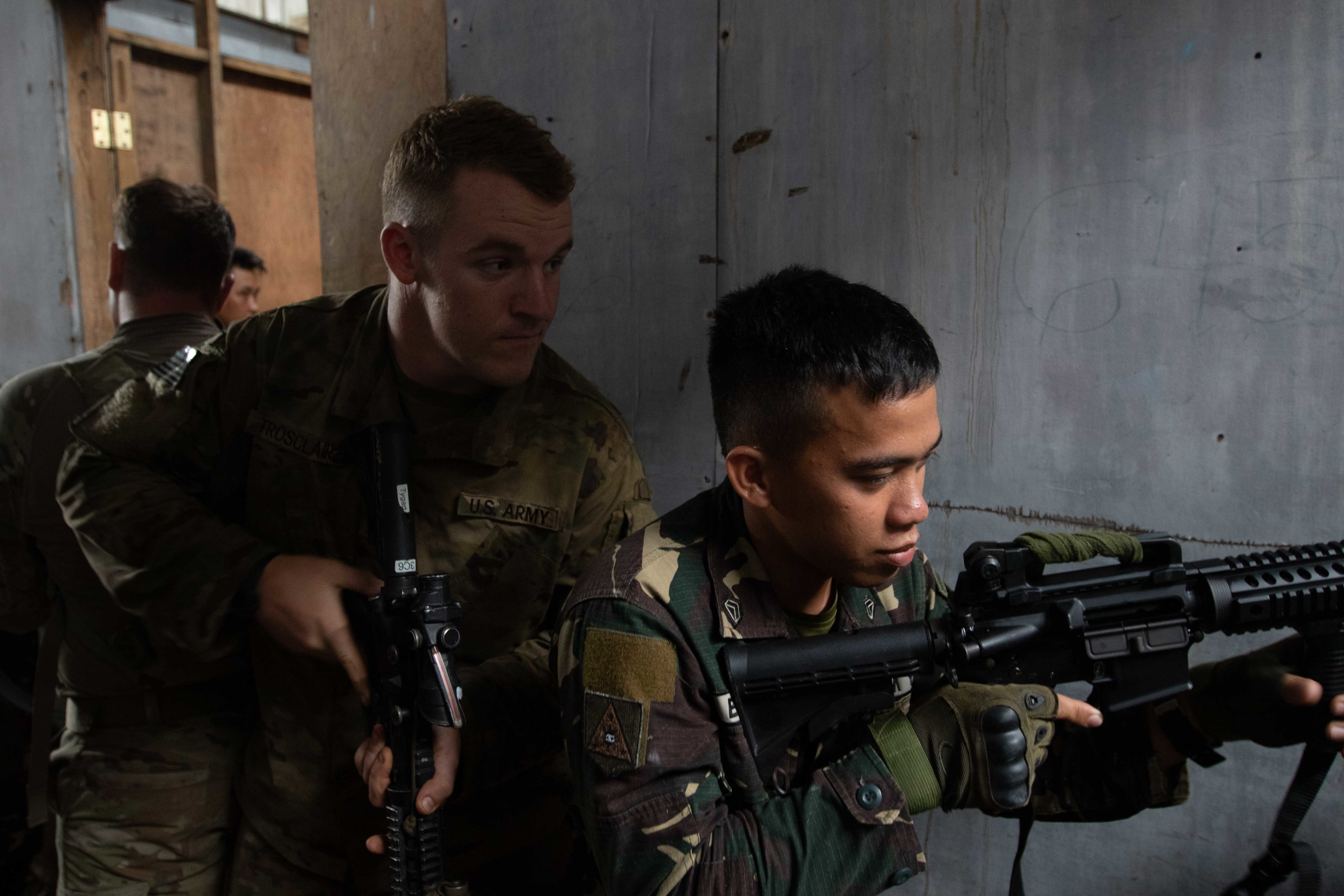 Filipino soldiers from the Philippines Army's 1st Brigade Combat Team and U.S Soldiers from 5th Battalion, 20th Infantry Regiment, 1st Stryker Brigade Combat Team, 2nd Infantry Division, conduct military operations in urban terrain, or MOUT, training during Exercise Salaknib on Fort Magsaysay, Philippines, Mar 8, 2019. Salaknib is an annual exercise sponsored by U.S. Army Pacific and hosted by the Philippine Army, contributing to and enhancing U.S. and Philippine defense readiness while strengthening multinational relationships.